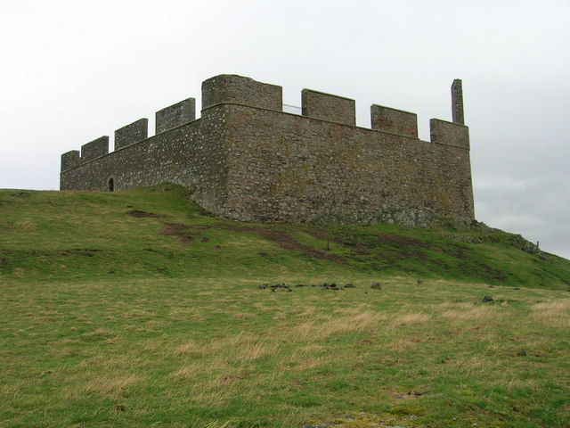 Hume Castle A 13th C. castle on a hill just outside Kelso.